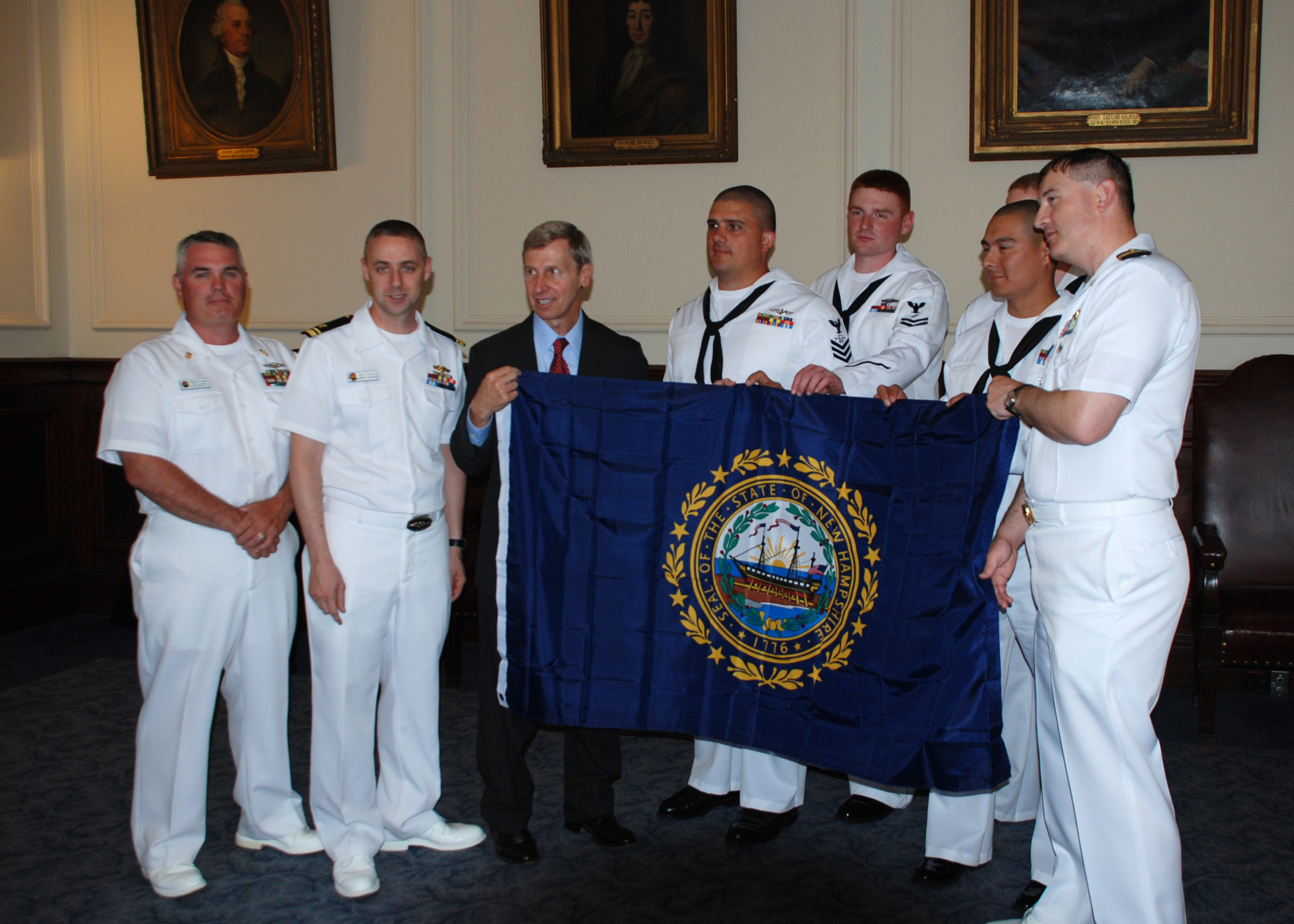 BOSTON (July 29, 2011) New Hampshire Governor John Lynch poses with a New Hampshire state flag presented by Sailors assigned to the fast attack submarine USS New Hampshire (SSN 778). The flag was flown on the submarine during Ice Exercise 2011. Flags were also presented to the USS New Hampshire commissioning committee and the Portsmouth Naval Shipyard Commander Capt. L. Bryant Fuller III. (U.S. Navy photo by Lt. Jennifer Cragg/Released)